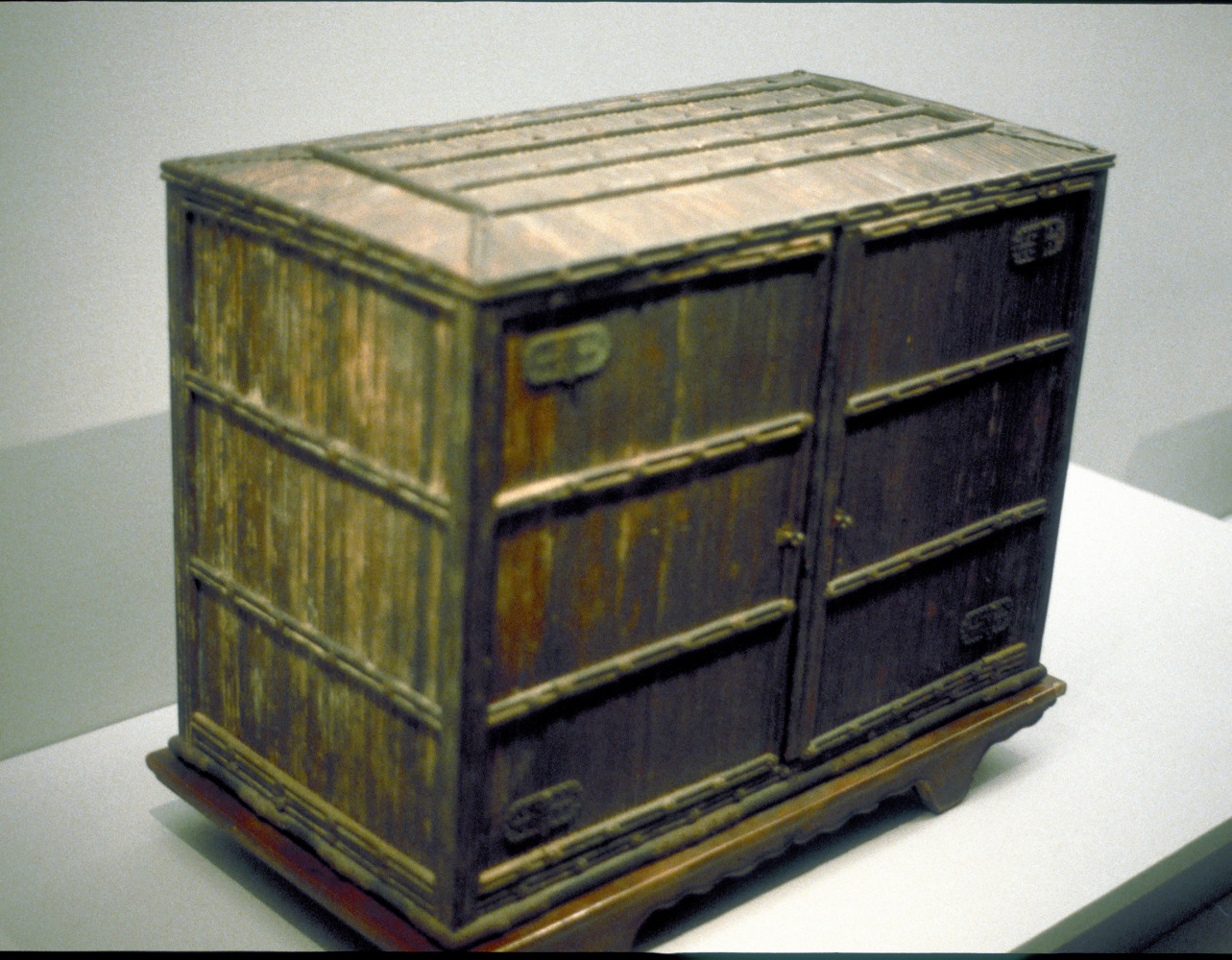 Bamboo cabinet (TAKE-ZUSHI), Nara period, 8th century Cabinet. Bamboo. H 55cm, w 75cm, former Horyu-ji Temple treasures, Tokyo National Museum, Tokyo, Japan